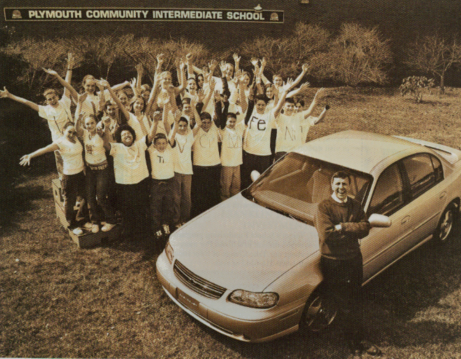 Warren G. Phillips, 2002 Time For Kids/ Chevrolet Malibu Teacher of the Year - grand prize winner.